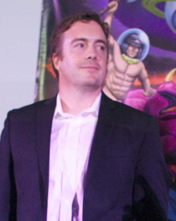 Q& A, "Blue Ruin" Fantastic Fest with Writer/Director Jeremy Saulnier and lead actor Macon Blair